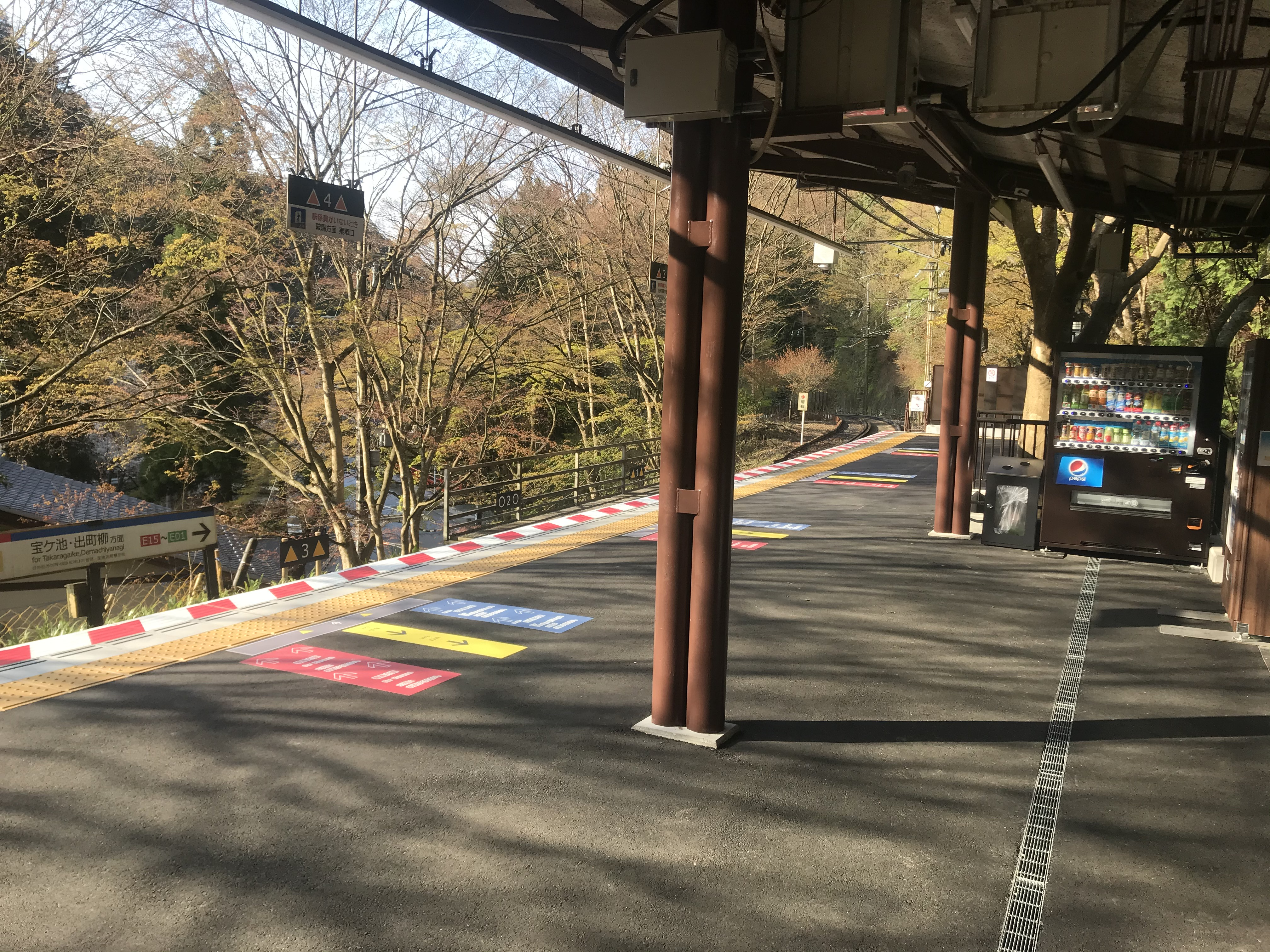 Kibuneguchi station platform viewing Ninose direction